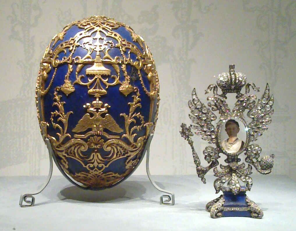 The Tsarevich Egg is a Fabergé egg, one in a series of fifty-two jewelled eggs made under the supervision of Peter Carl Fabergé. It was created in 1912 for Empress Alexandra Fyodorovna as a tribute by Faberge to her son the Tsarevich Alexis (Alexei). The egg currently resides in the Virginia Museum of Fine Arts.